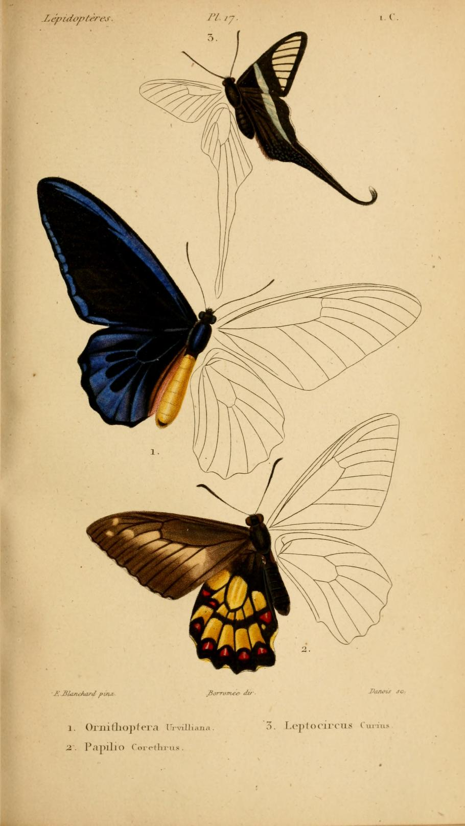 Boisduval & Guenée Histoire naturelle des insectes spécies général des lépidoptères.Published 1836 by Roret in Paris (Suites à Buffon).Written in French.Vols. 5-10 by A. Guenée; v. 2-4 not published.Plate 17